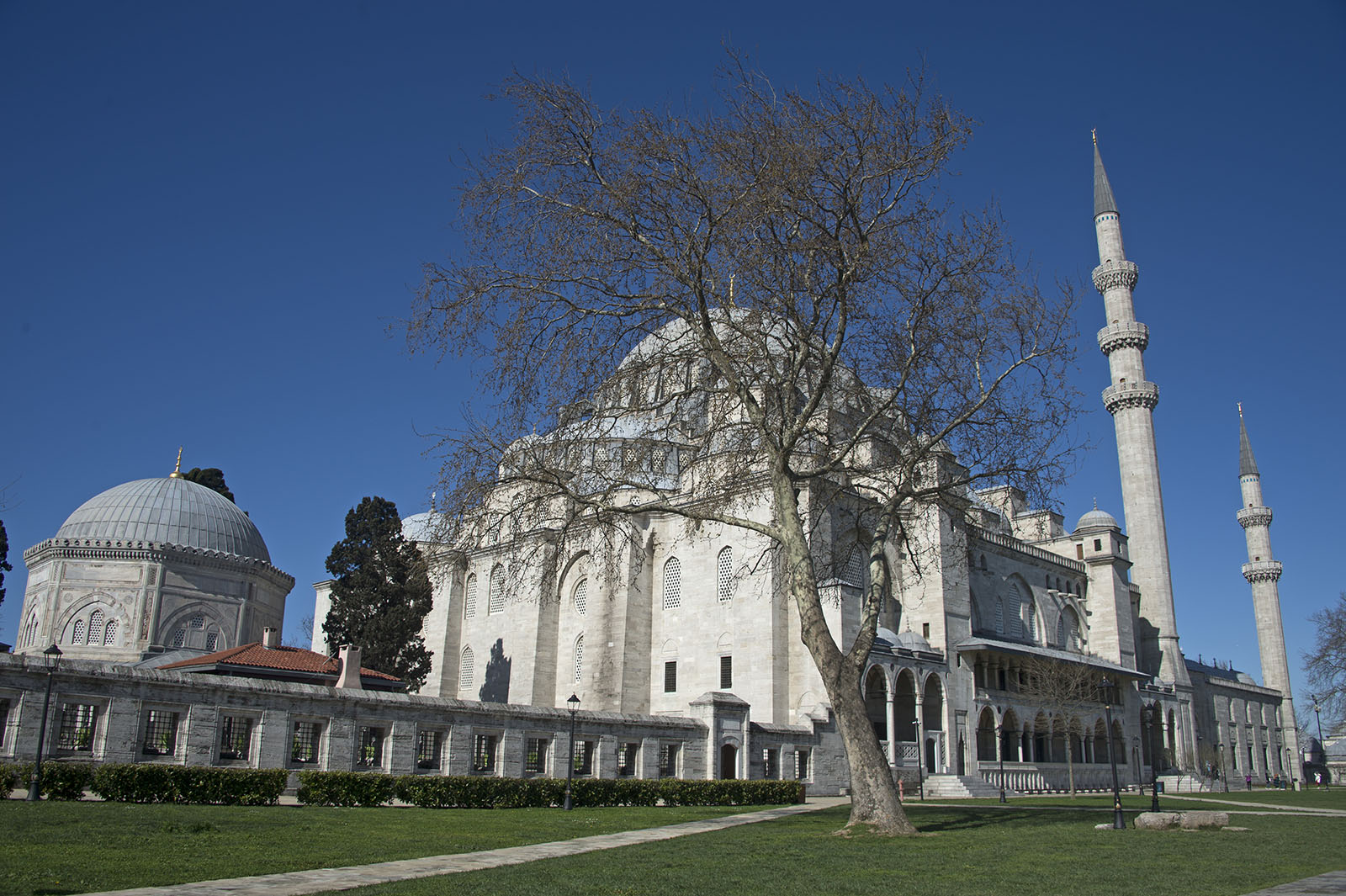 The mausoleum of Süleyman is visible to the left.